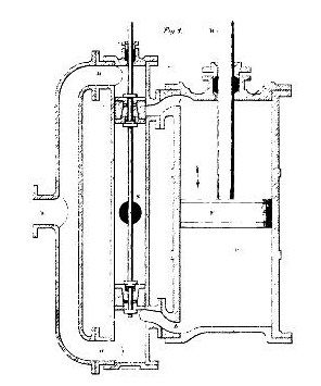 Piston arrangement by Taylor & Martineau, from Plate IV of Thomas Tredgold, The Steam Engine: Comprising an Account of Its Invention and Progressive Improvement (1827). Explanation of the plate: [1]: "Fig. 4 is a simple arrangement of the hight pressure engine, by which the expanding power of the steam may be used; it is the invention of Messrs. Taylor and Martineau. [...]"